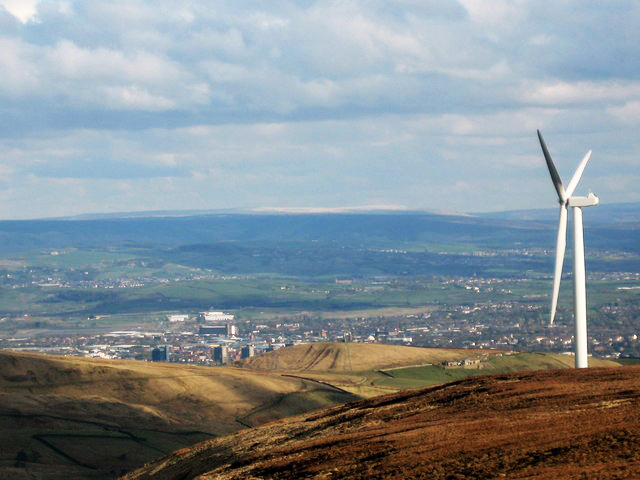 Turbine Tower No 9 overlooking Rochdale town centre Turbine No 9 on Scout Moor has a commanding view of the town of Rochdale in the valley below. Construction was completed early in 2008 with turbine No 9 just one of 26 wind turbines on the Scout Moor Wind Farm.